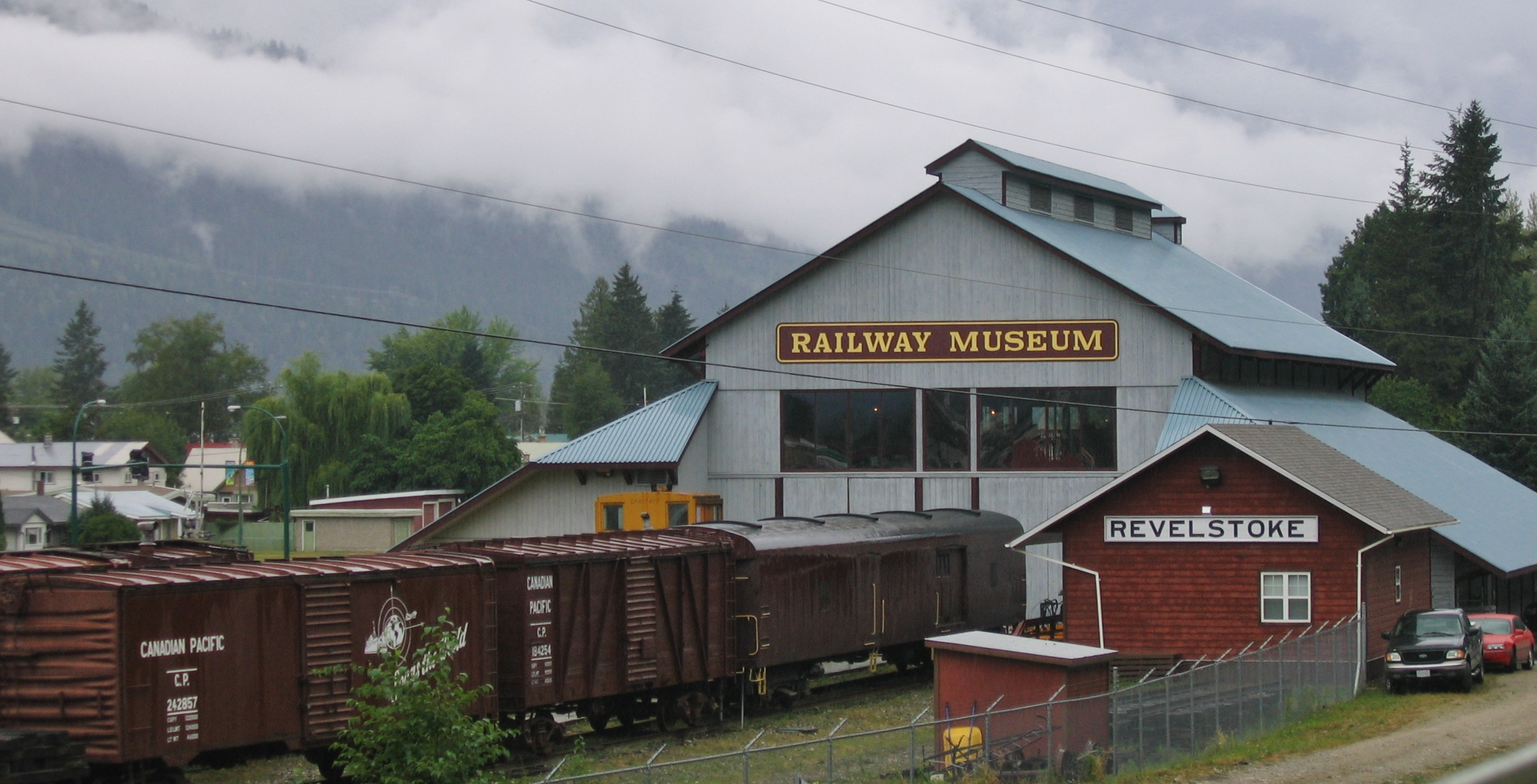 Revelstoke Railway Museum